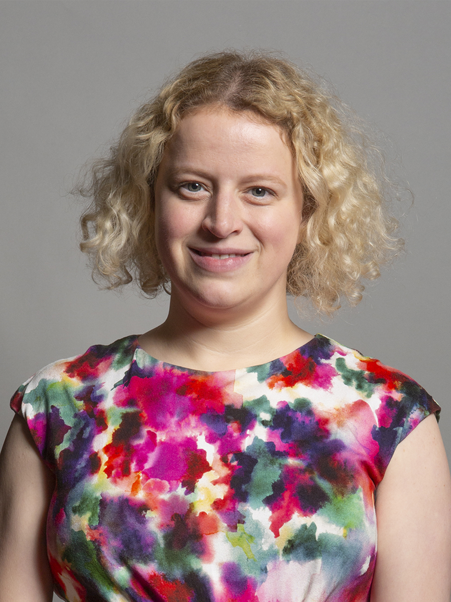 Official portrait of Olivia Blake MP 3×4 portrait of Olivia Blake